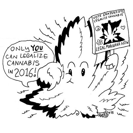 Detail of scan of comic strip "Marijuana Legalization in Minnesota is Not Inevitable" by Andy Schuler. Drawn on April 20, 2015 for Legal Marijuana Now political party.